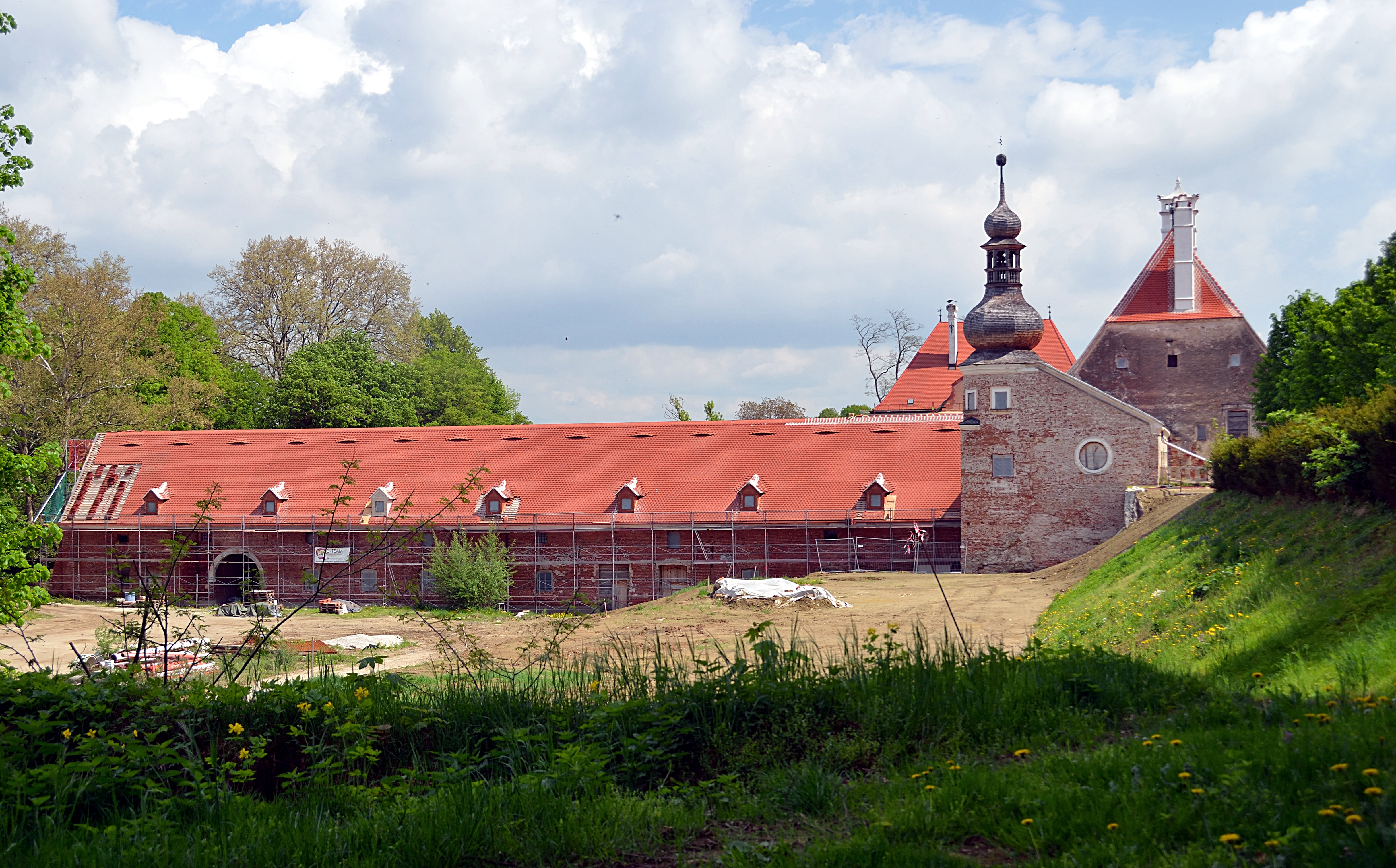 Schloss Thalheim, a palace in the village Thalheim, municipality of Kapelln, Lower Austria is protected as a cultural heritage monument. It was renovated completely in 2013